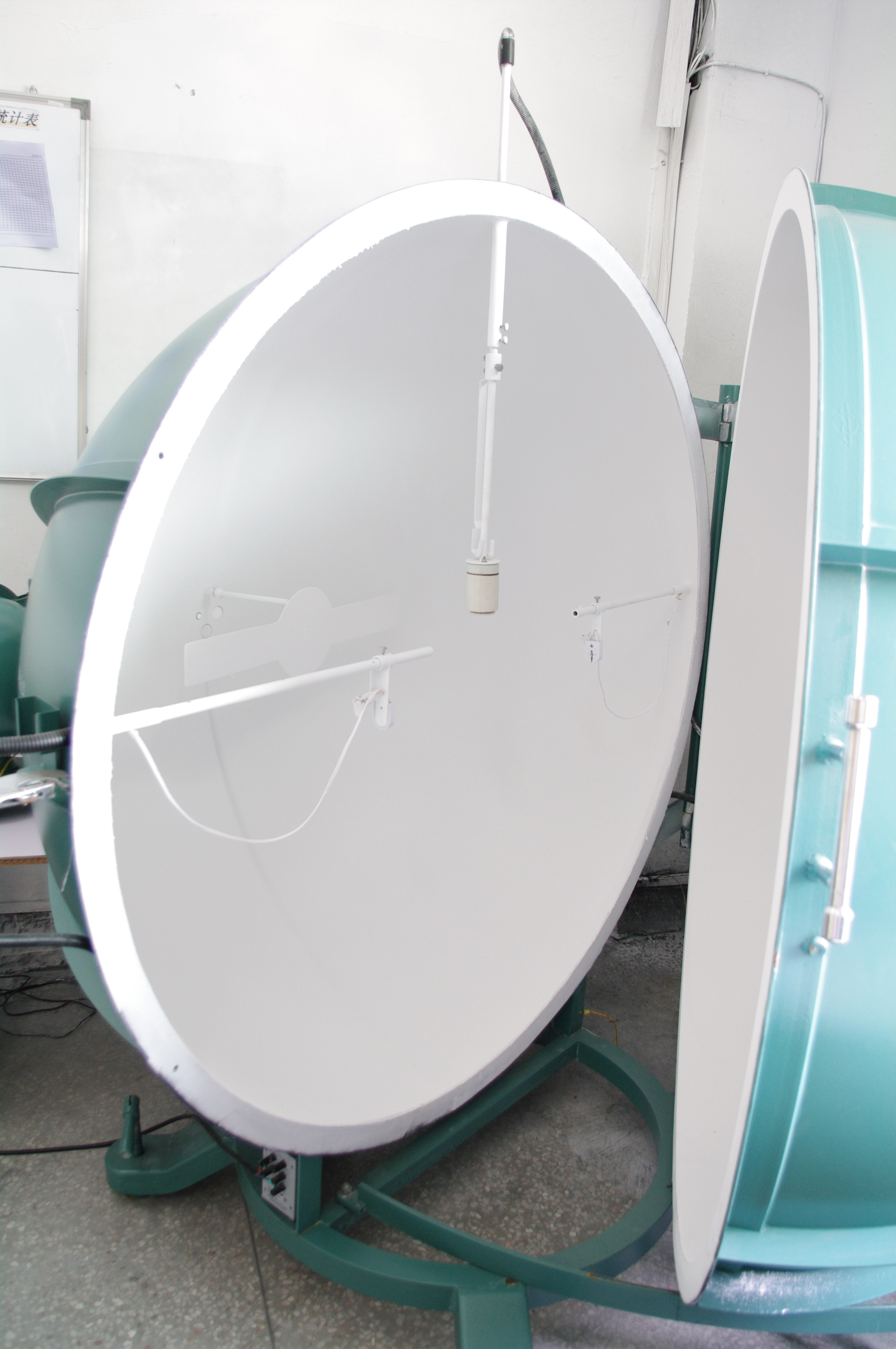 luminance chamber for the measurement of luminance power of LED lighting devices